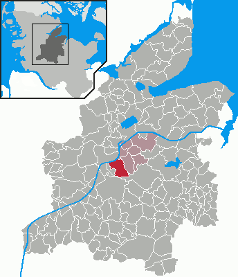 Locator maps of municipalities in Schleswig-Holstein - District Rendsburg-Eckernförde